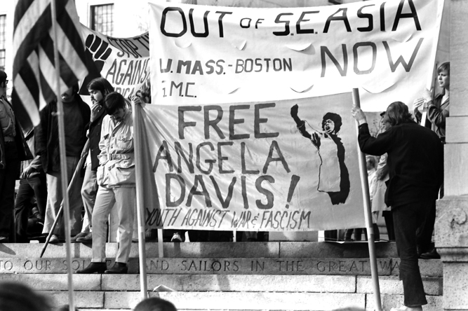 boston common, boston, october 1970 banners, vietnam anti-war demonstration "out of s.e. asia now" "free angela davis!"